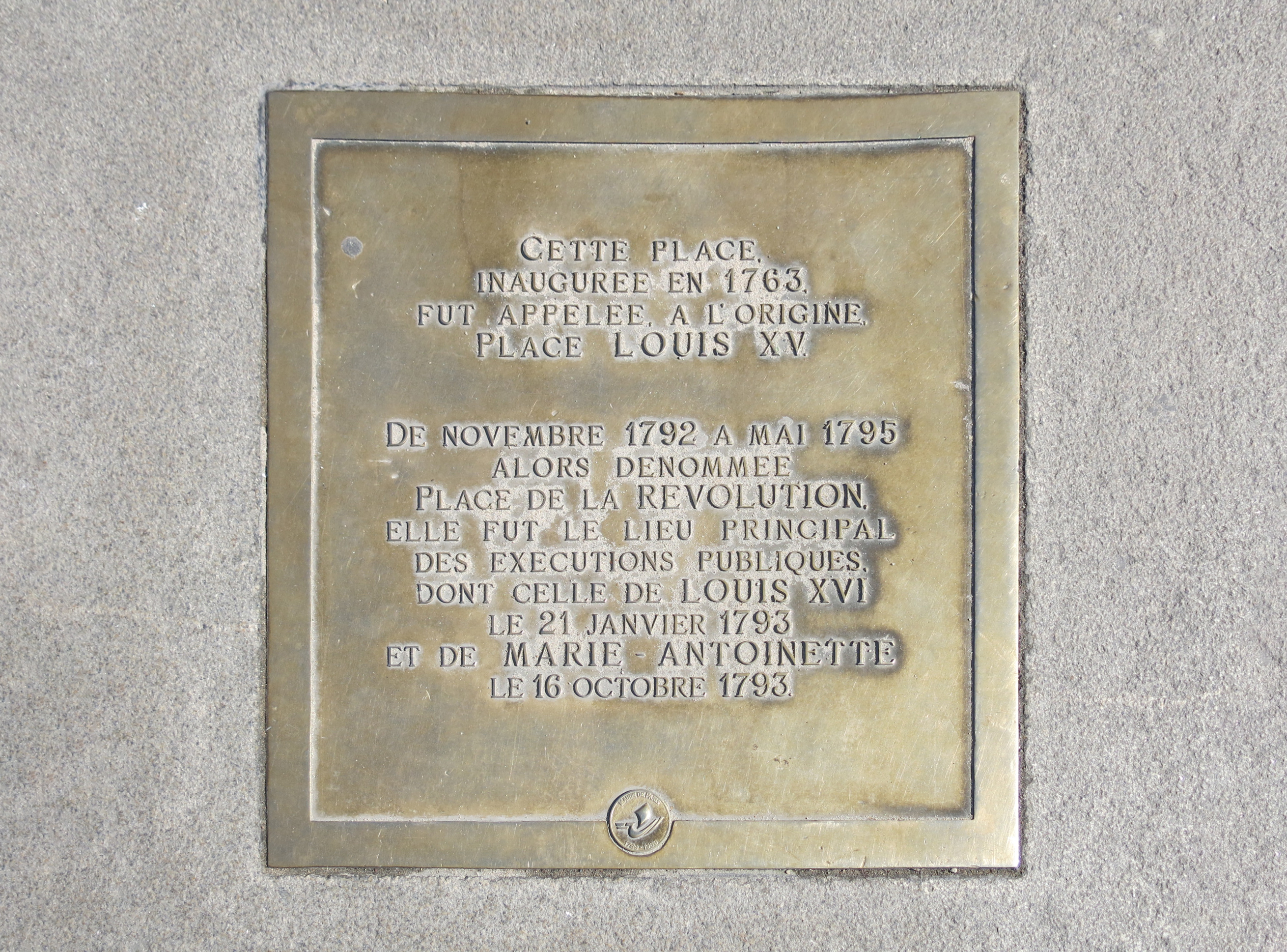 Plaque about the history of Place de la Concorde, where King Louis XVI and Queen Marie-Antoinette were executed in 1793. Place de la Concorde, Paris 8th arrond. (France).